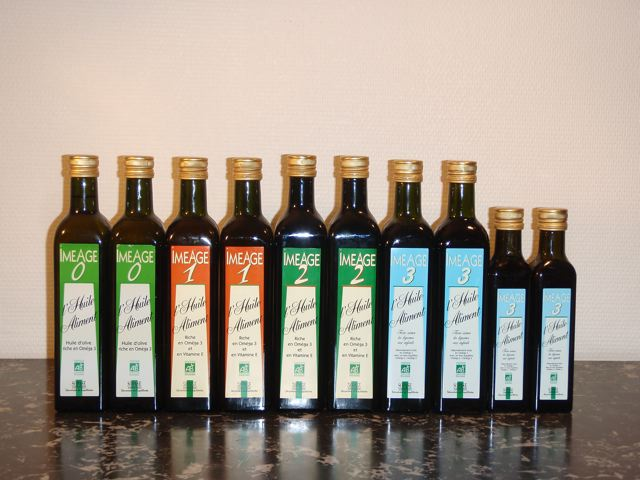 Some Imeage oils